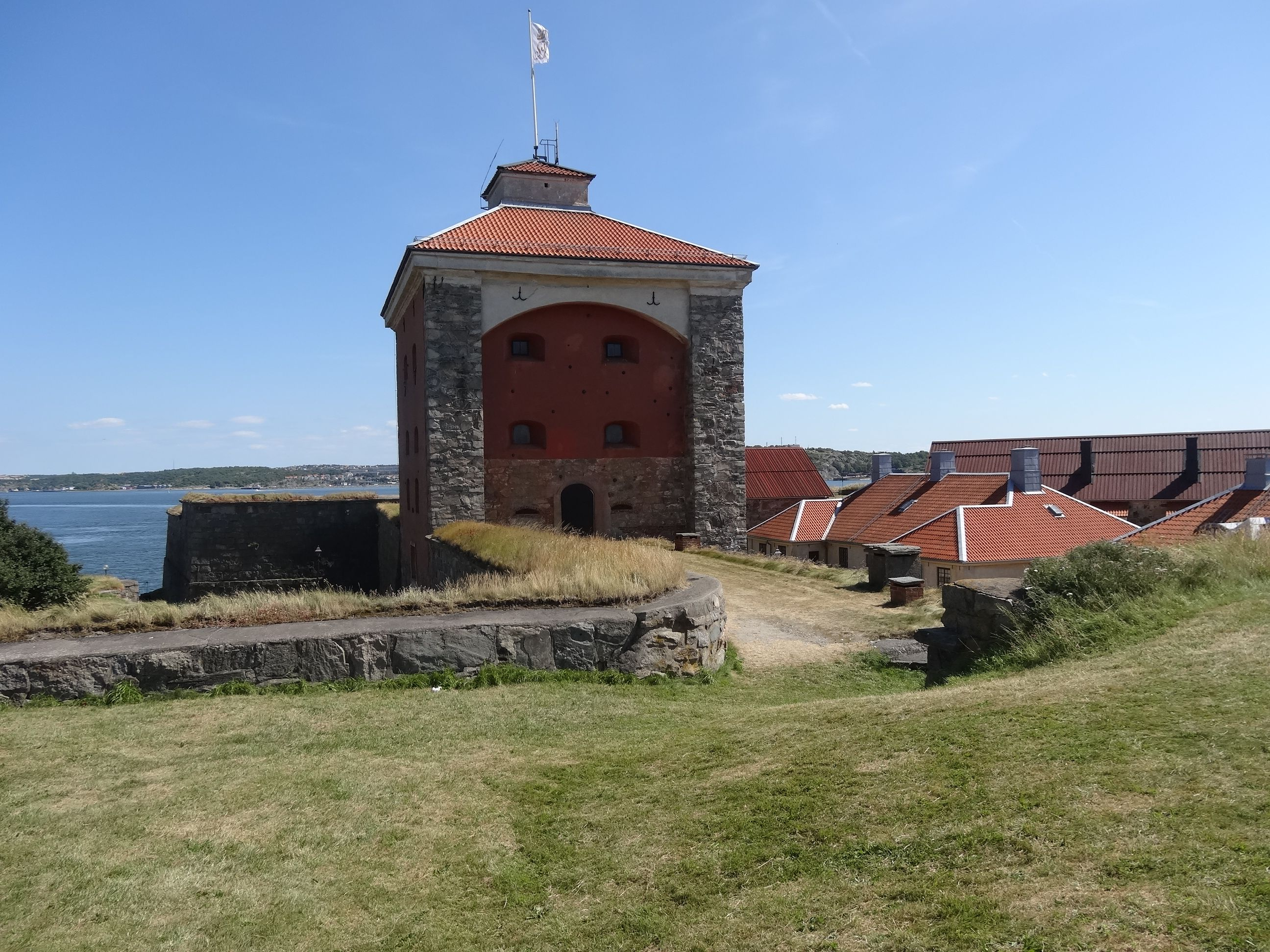 Fortress Nya Älvsborg i Gothenburg harbour, Sweden. View from the northwesterly bastion "The Humber". Canonballs from the 1719 siege by Danish-Norwegian forces is still visible in the wall of the tower.